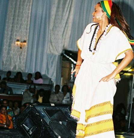 Semra Kebede at Miss Africa USA 2006